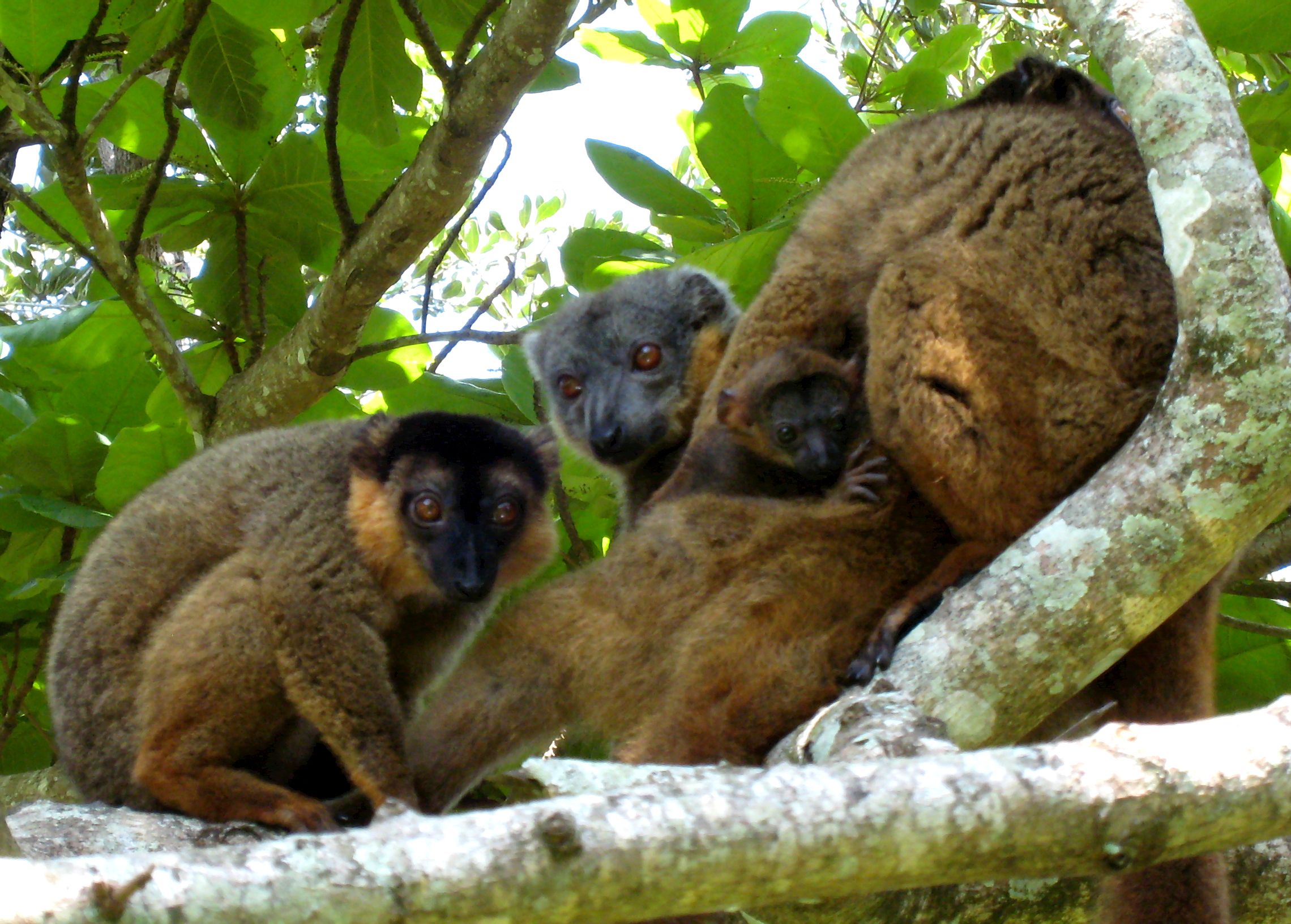 Collared Brown Lemurs (Eulemur collaris): Adult male and female with infant and one other adult at Nahampoana Reserve in Madagascar